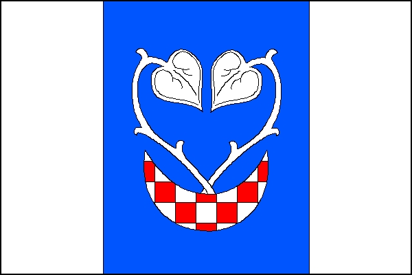 Flag of market-town Litultovice in Moravian-Silesian Region, Czech Republic. Česky: Vlajka Litultovic, městyse v Moravskoslezském kraji. (Blason: List tvoří tři svislé pruhy, bílý, modrý a bílý v poměru 1:2:1. Na modrém poli dvě bílá lekna vyrůstající ze stoupajícího bílo-červeně šachovaného půlměsíce. Poměr šířky k délce listu je 2:3.)